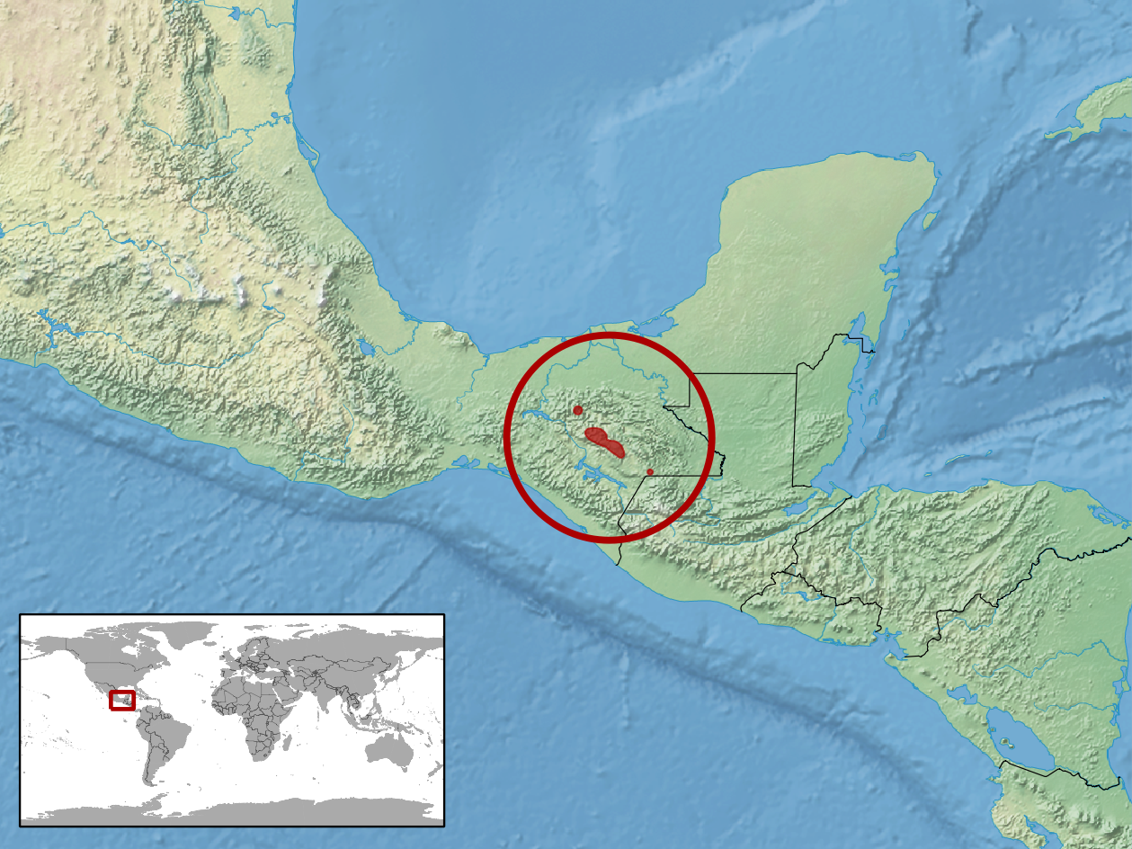 geographic distribution of Abronia lythrochila (Native: Mexico)